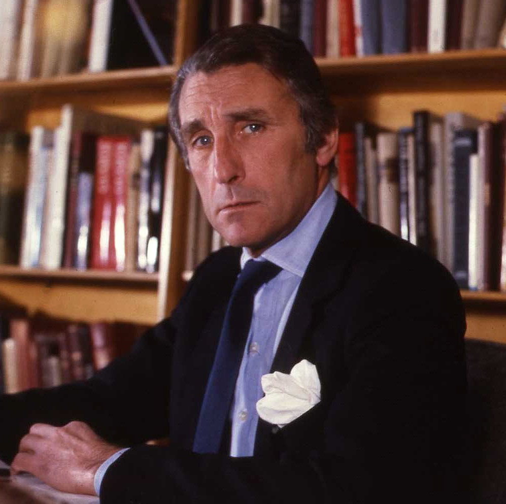 11th Duke of Beaufort taken in London